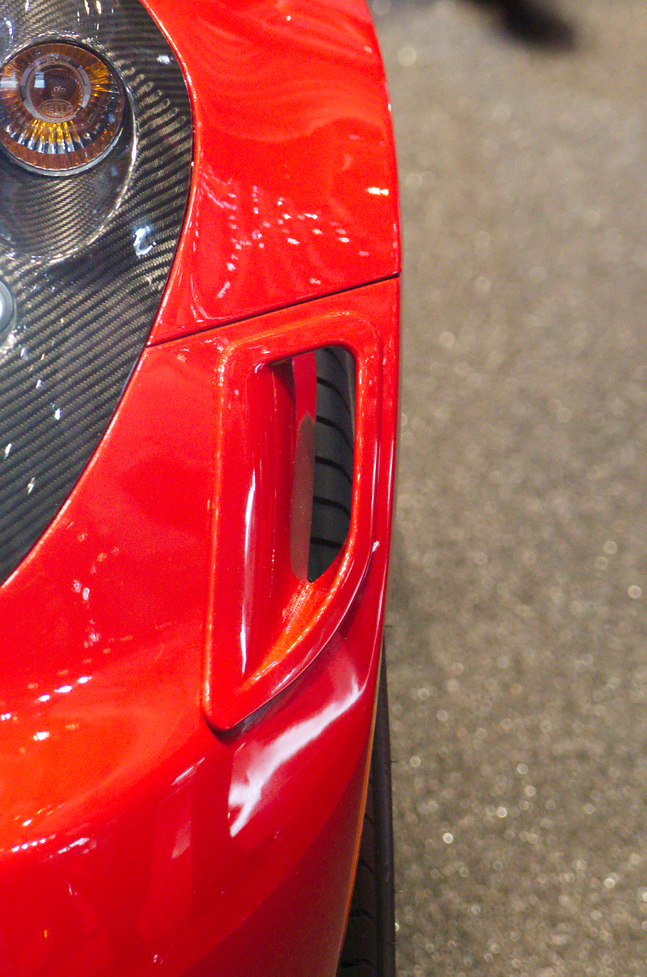 Geneva MotorShow 2013 - Alfa-Romeo 4C red air intake